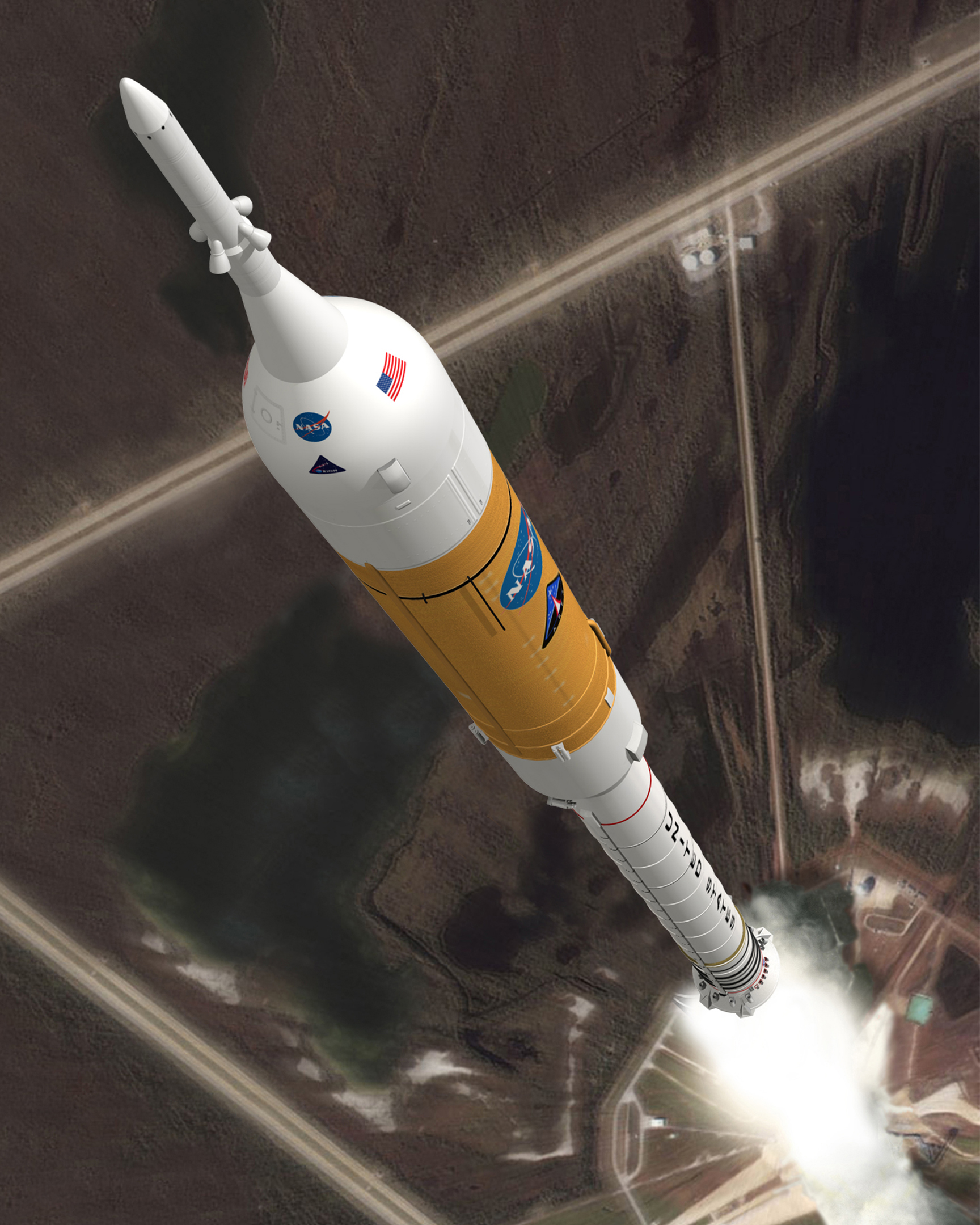 Ares 1 (February 2008)MSFC-0800205 (8 Feb. 2008) -- A concept image shows the Ares I crew launch vehicle during ascent. Ares I is an in-line, two-stage rocket configuration topped by the Orion crew exploration vehicle and launch abort system. The Ares I first stage is a single, five-segment reusable solid rocket booster, derived from the space shuttle. Its upper stage is powered by a J-2X engine. Ares I will carry the Orion with its crews of up to six astronauts to Earth orbit.